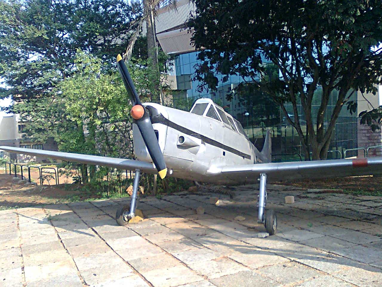 This is a photograph of the HAL HT-2 military trainer aircraft developed by Hinudstan Aeronautics Limited. This aircraft is located infront of the Department of Aerospace Engineering at Indian Institute of Science, Bangalore.